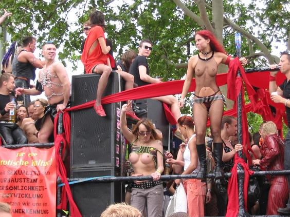 The Cristopher Street Day in Berlin